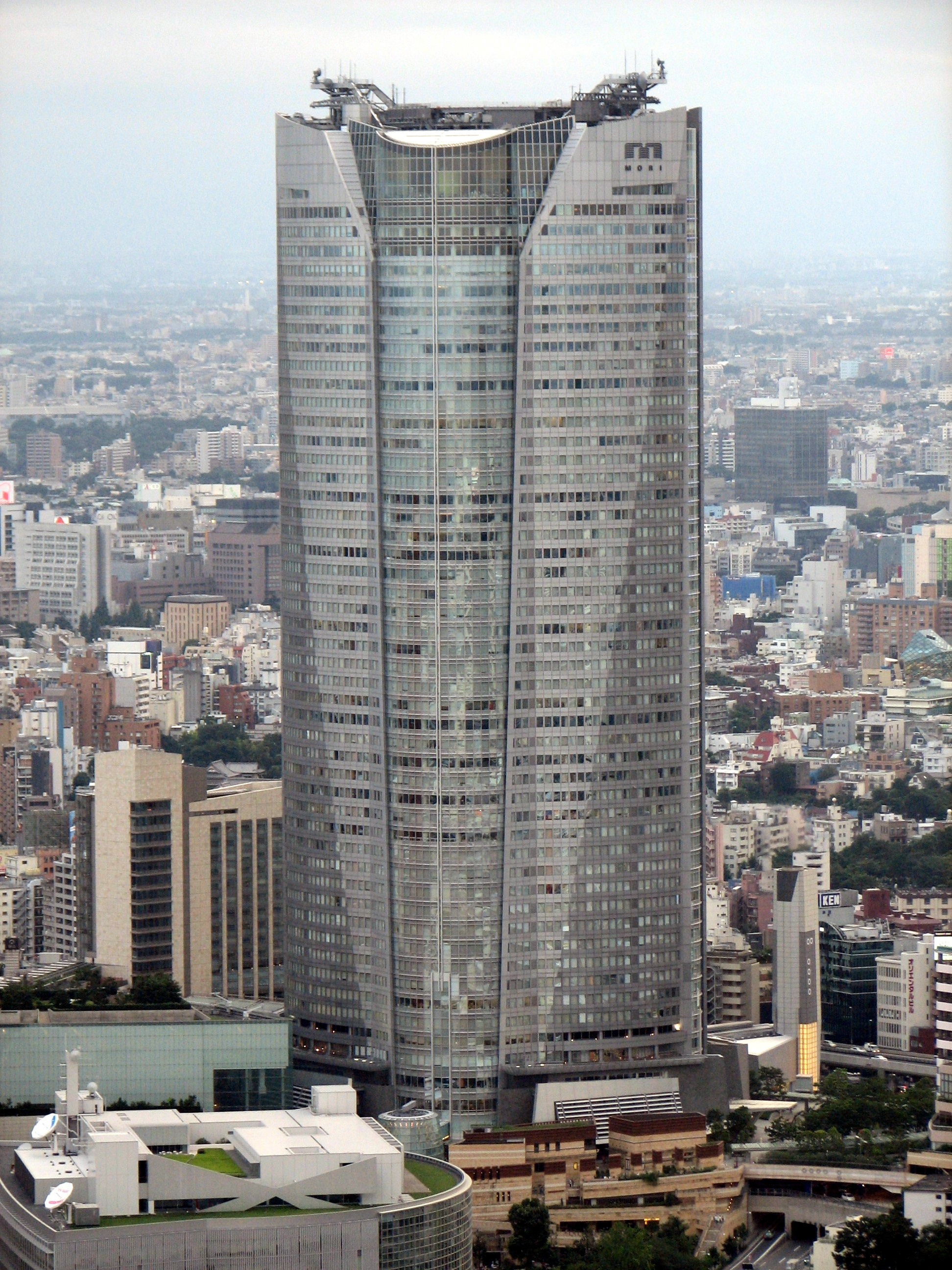 Mori Tower in Roppongi Hills during the day as seen from Tokyo Tower